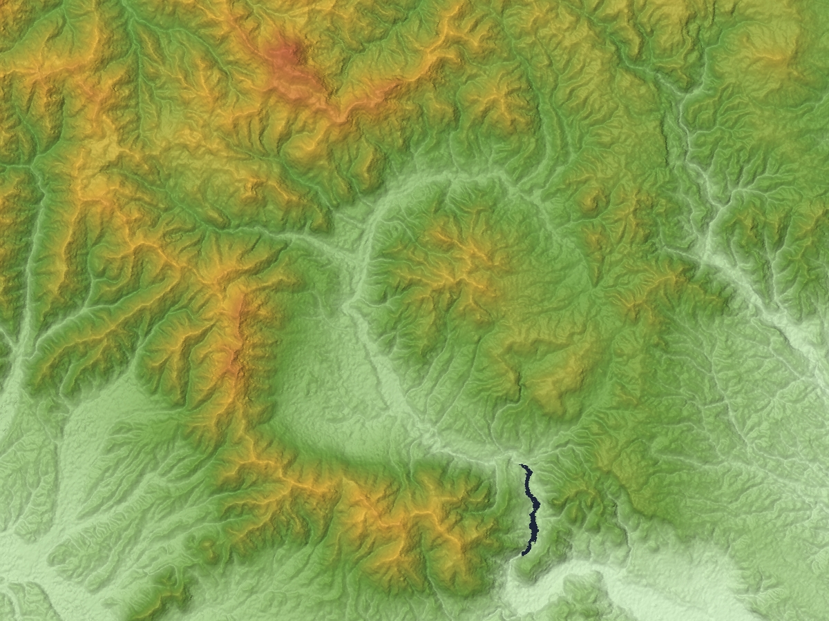 Onikobe Caldera in Honshu, Japan.